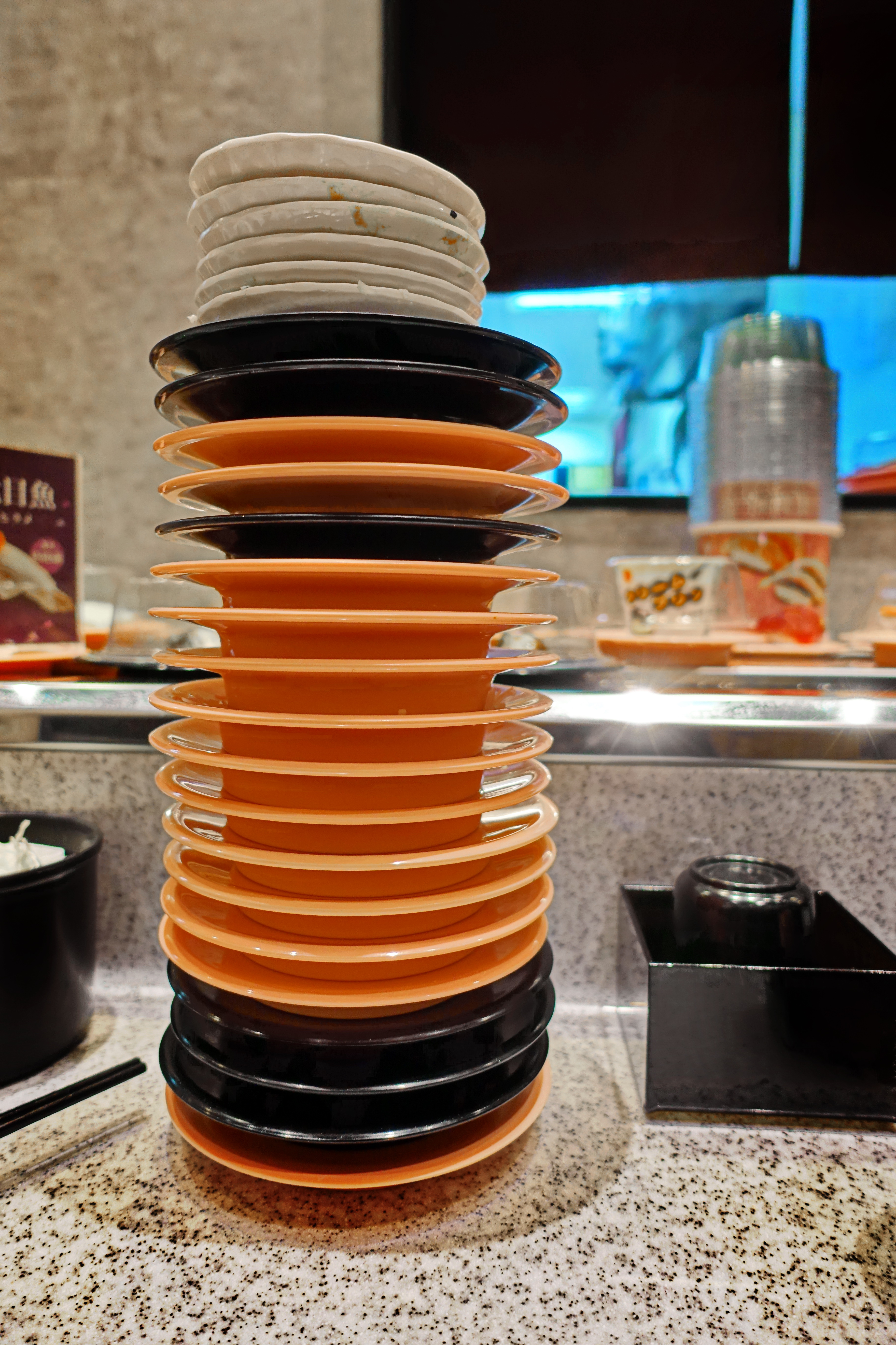 A stack of empty sushi plates at a conveyor belt sushi restaurant (Sushi Express) in Taiwan